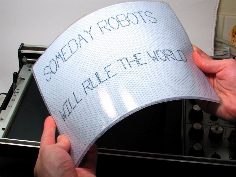 It's a big and flexible e-paper display-- not bad for fifteen bucks! The text was drawn on the display by our Analog PlotBot, Read more about this project here.